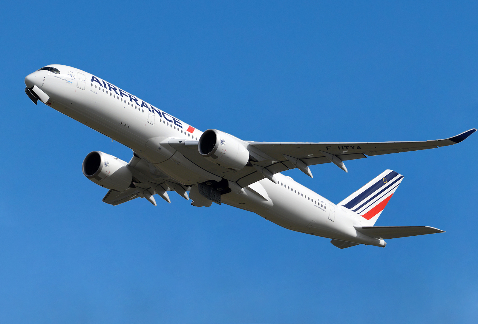 First A350-900 of Air France seen on departure with landing gear in transit